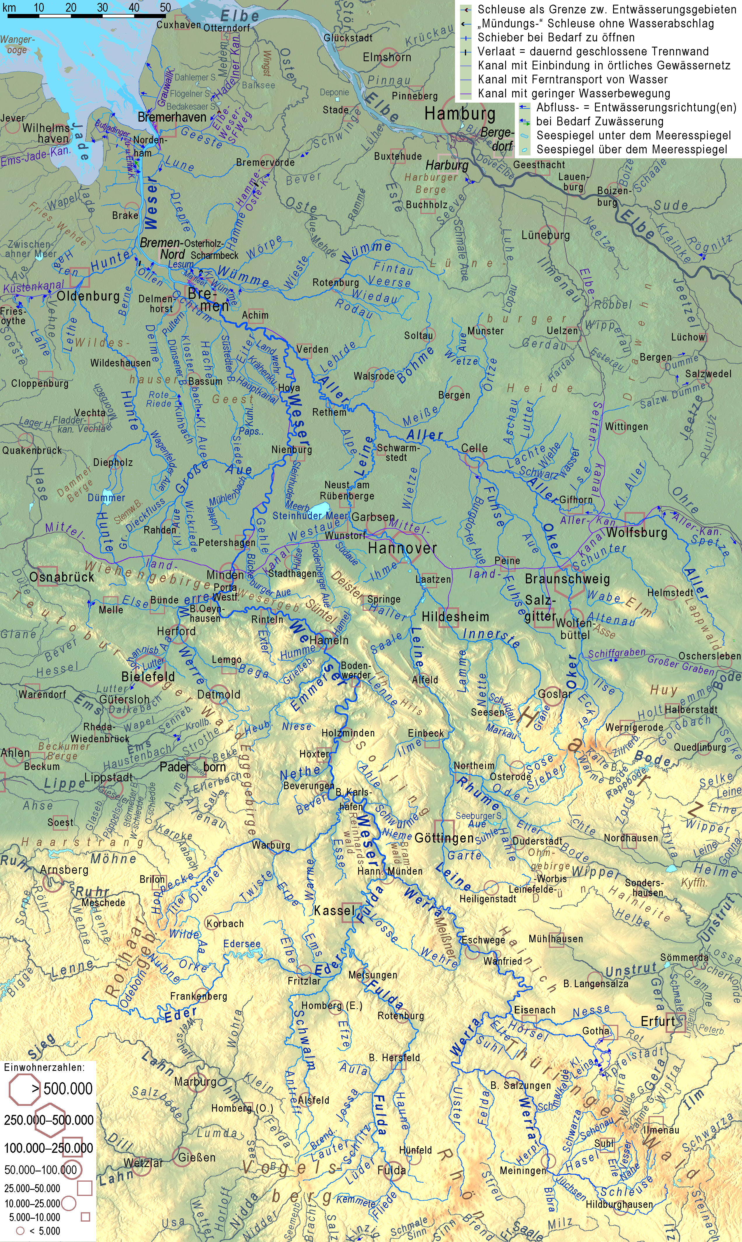 Topographic map of Weser River system, German version